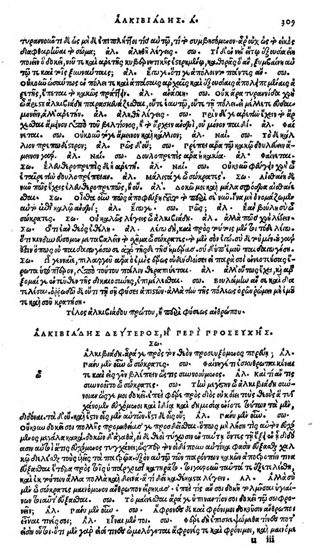 Alkibiades B beginning. Editio princeps, Venice 1513.